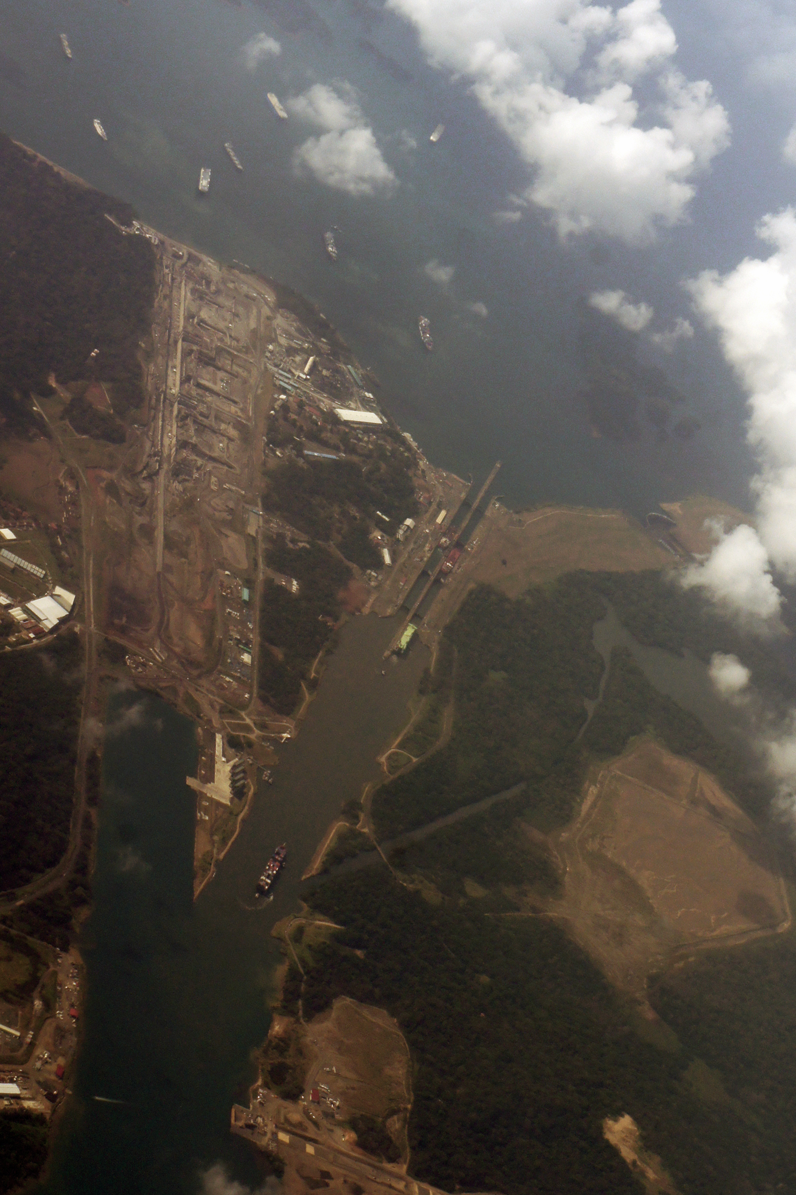 Aerial view of Gatun Locks, Panama Canal. On top, several vessels waiting to cross the locks at Gatun Lake. At the bottom is exit canal to the Atlantic Ocean. At the left of the existing locks is the construction area for the new locks part of the Panama Canal expansion project.